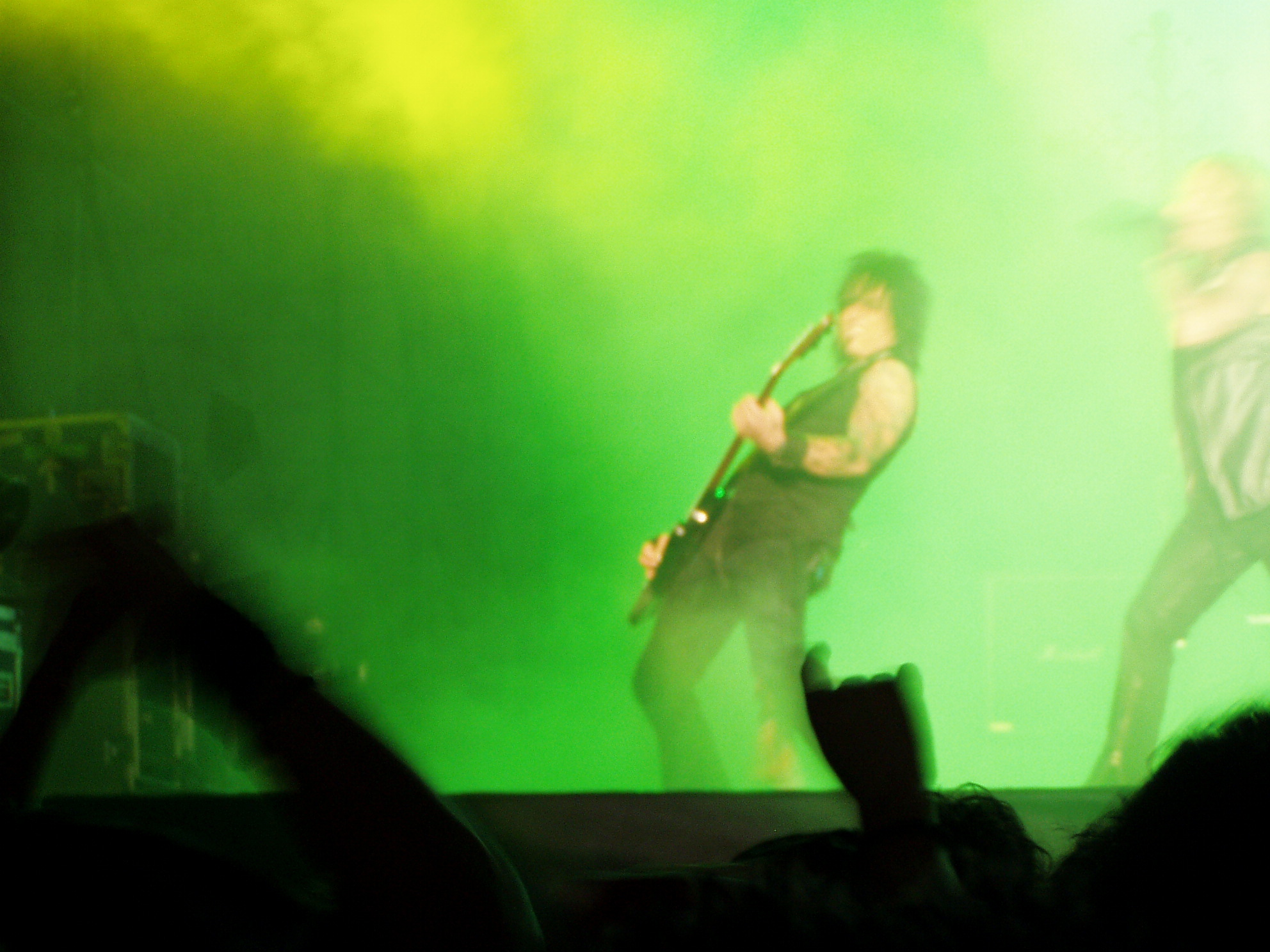 I Mötley Crüe al Gods of Metal 2007